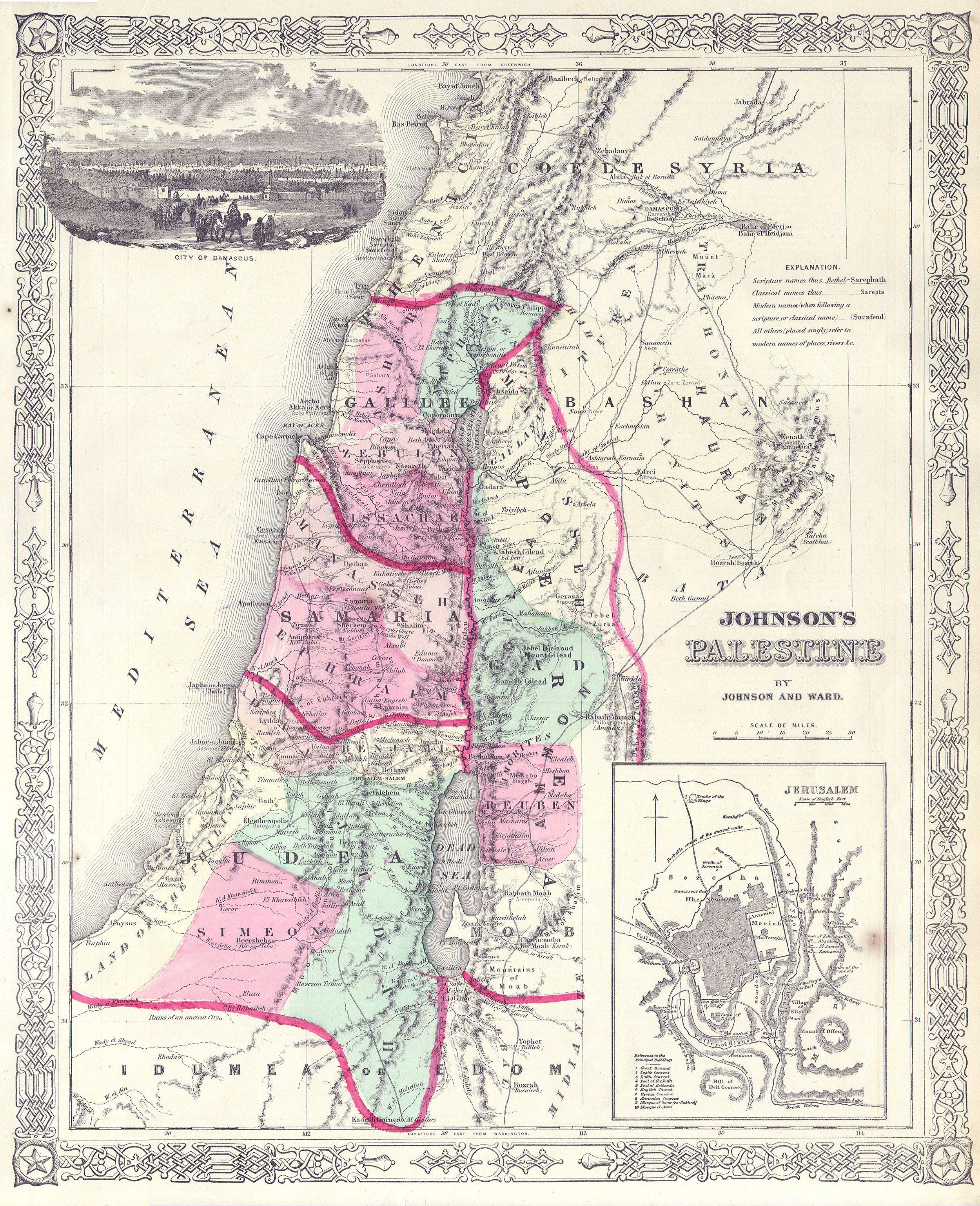 This is a beautiful hand colored map of Israel, Palestine, or the Holy Land. Map details cities, roads, biblical and historical sites with color coding at the regional level. Where appropriate alternate place names taken from the Arabic are noted. Topography shown by hachure. An inset map of Jerusalem appears in the lower right quadrant with all principal buildings noted. The upper left quadrant features an engraved view of Damascus. Features the fretwork style border common to Johnson’s atlas work from 1864 to 1869. Published by A. J. Johnson and Ward as plate no. 93 in the 1864 edition of Johnson’s New Illustrated Family Atlas . This is the first edition of the Johnson’s Atlas to bear the Johnson & Ward imprint and the only edition to identify the firm as the “Successors to Johnson and Browning (Successors to J. H. Colton and Company)”.